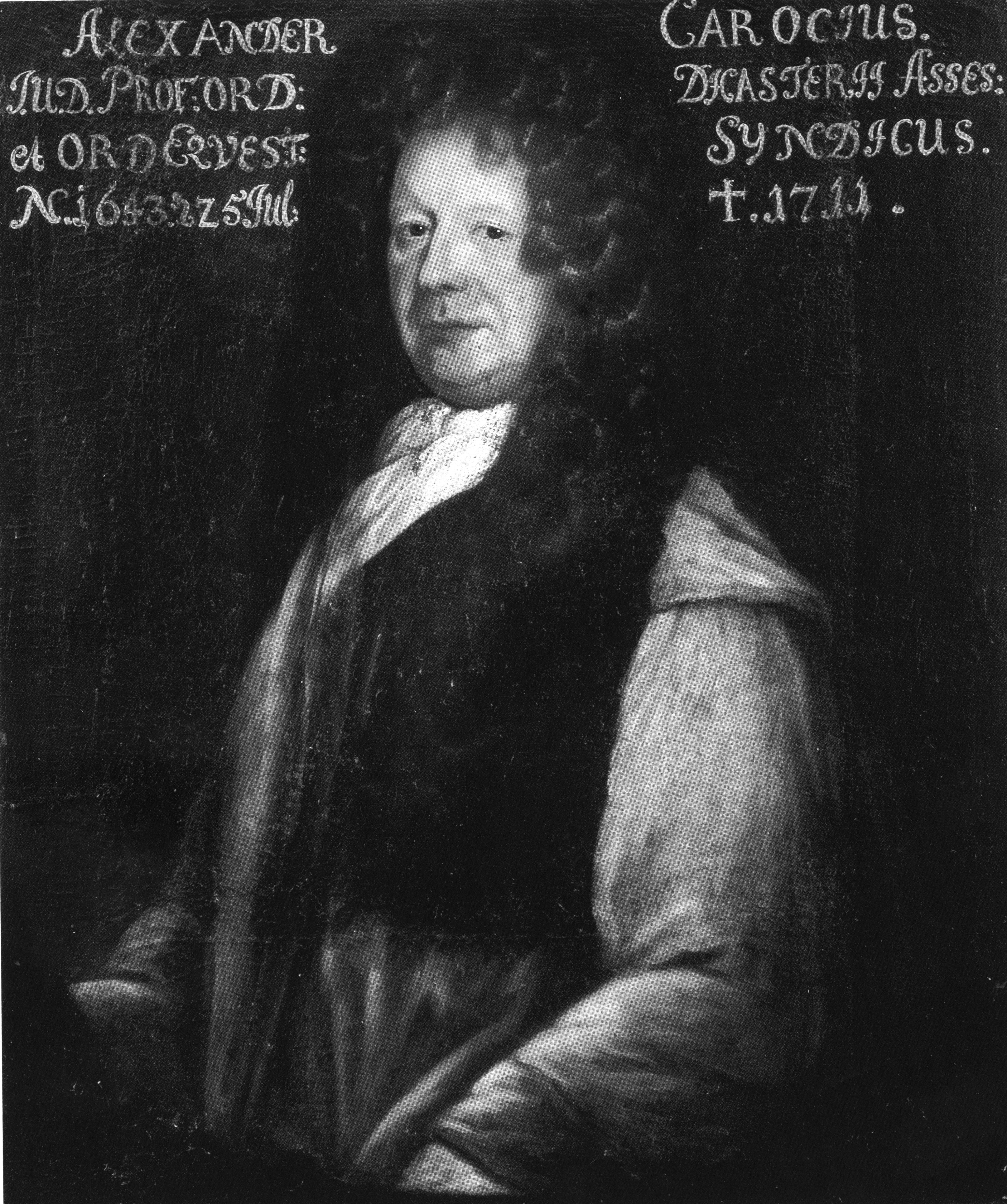 Jurist Alexander Caroc (1643–1711)